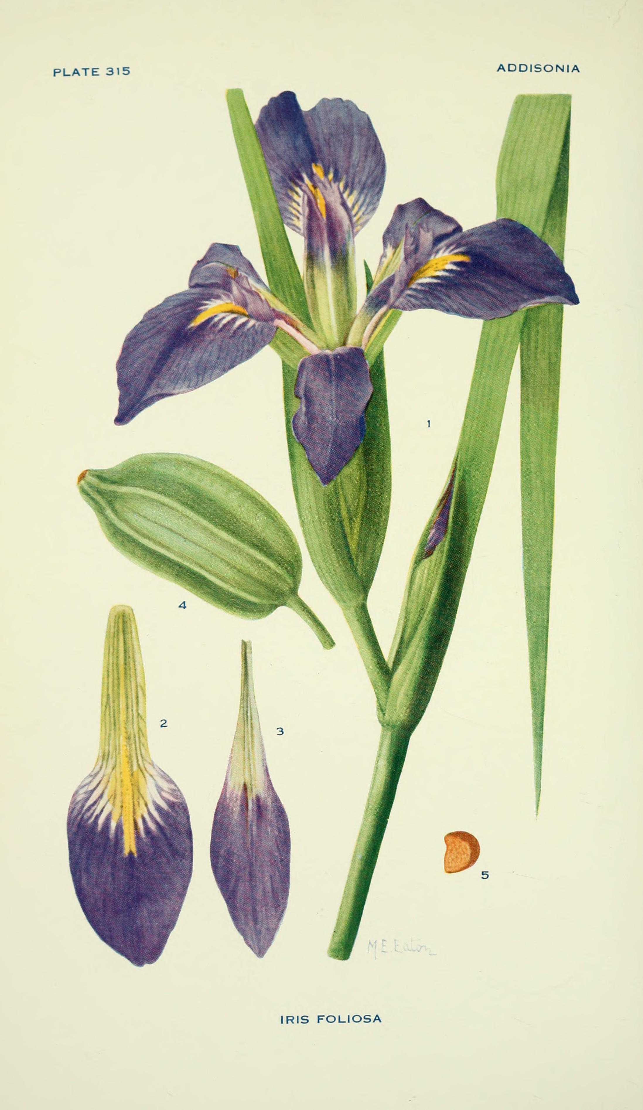 Title: Addisonia : colored illustrations and popular descriptions of plants Year: 1916-(1964) (1910s) Authors: New York Botanical Garden Subjects: Plants; Plants -- United States; Plants Publisher: New York : New York Botanical Garden Text Appearing Before Image: PLATE 315 ADDISONIA Text Appearing After Image: IRIS FOLIOSA